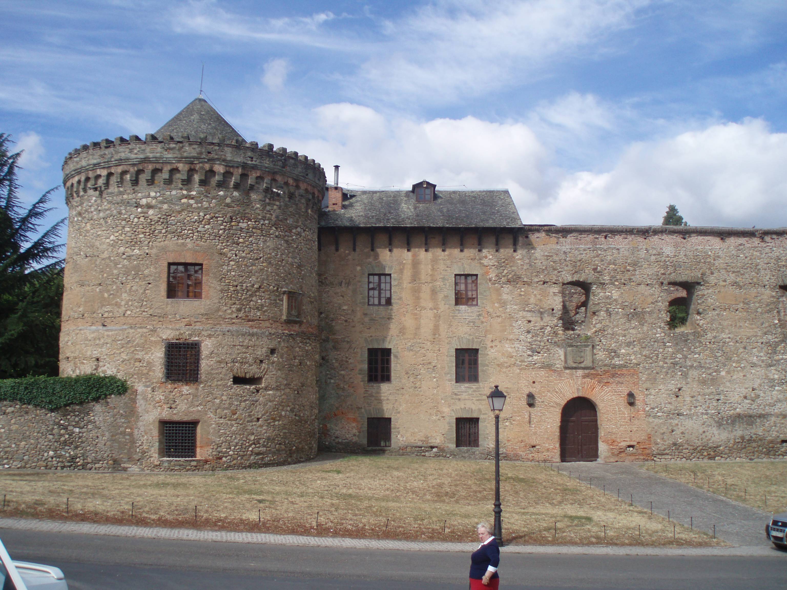 Castle of Villafranca del Bierzo, in Leon. (Spain).